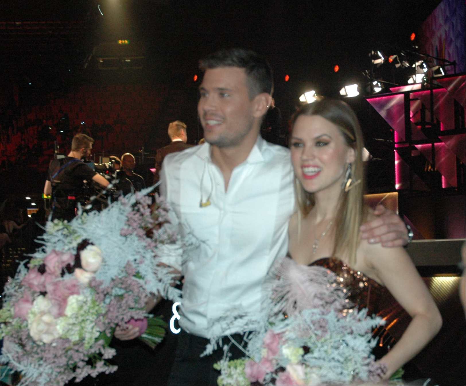 Robin Bengtsson & Ace Wilder, finalists of Melodifestivalen 2016